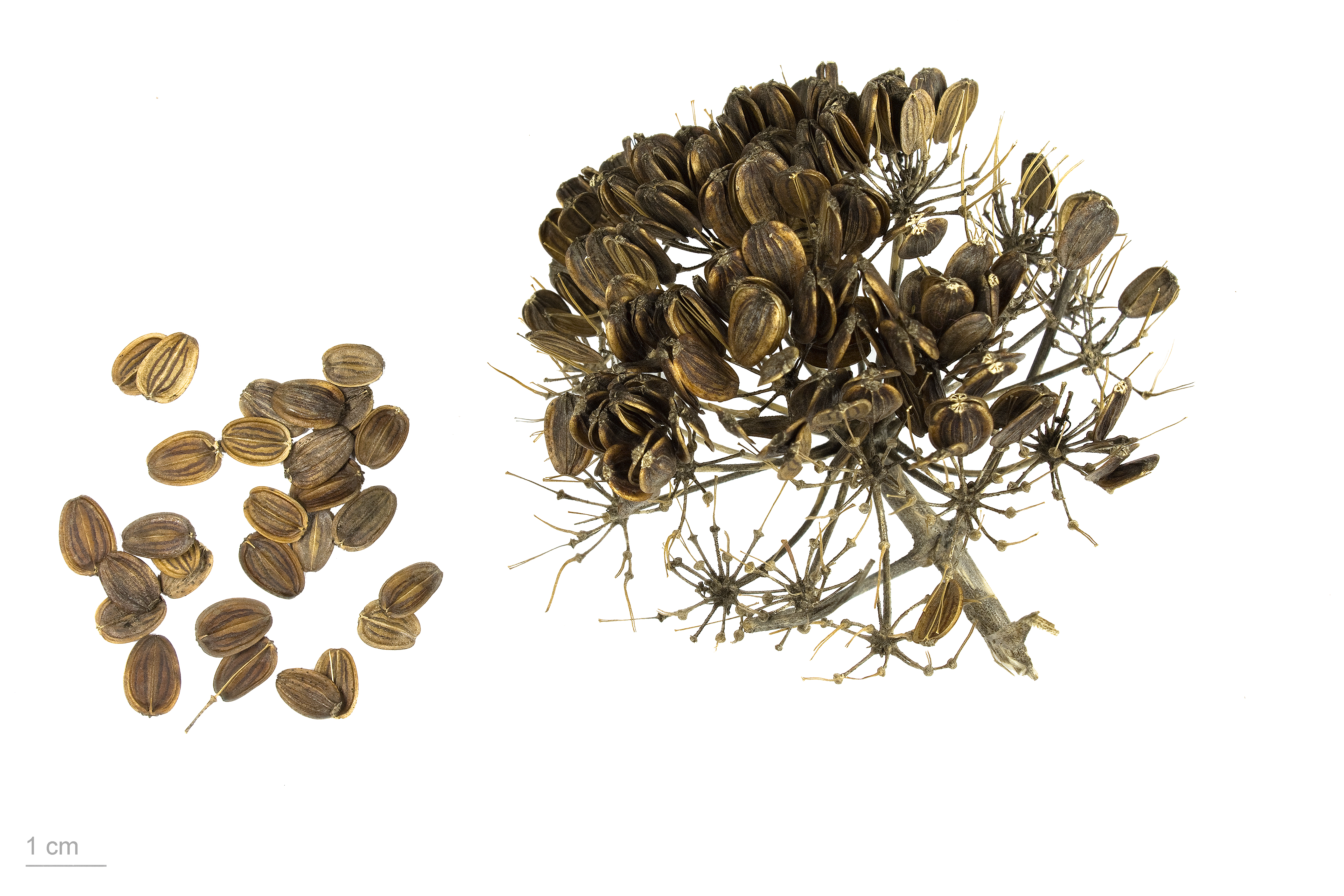 giant fennel , fruits and seeds